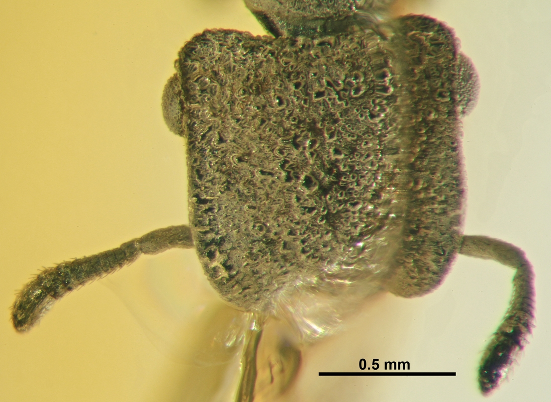 Close-up view of the Cephalotes dieteri paratype workers head. Dominican amber, Burdigalian; Dominican Republic, Hispaniola Staatliches Museum fur Naturkunde, specimen SMNSDO4162